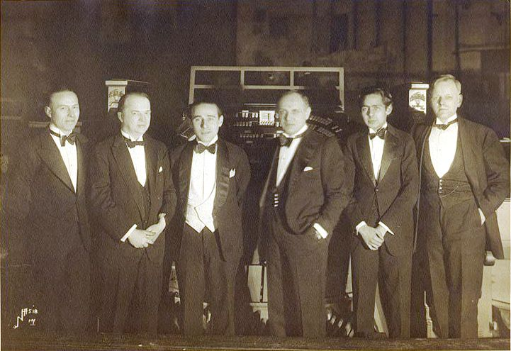 Dezso d'Antalffy (second from left) at the 1927 opening of the Roxy Theatre in New York